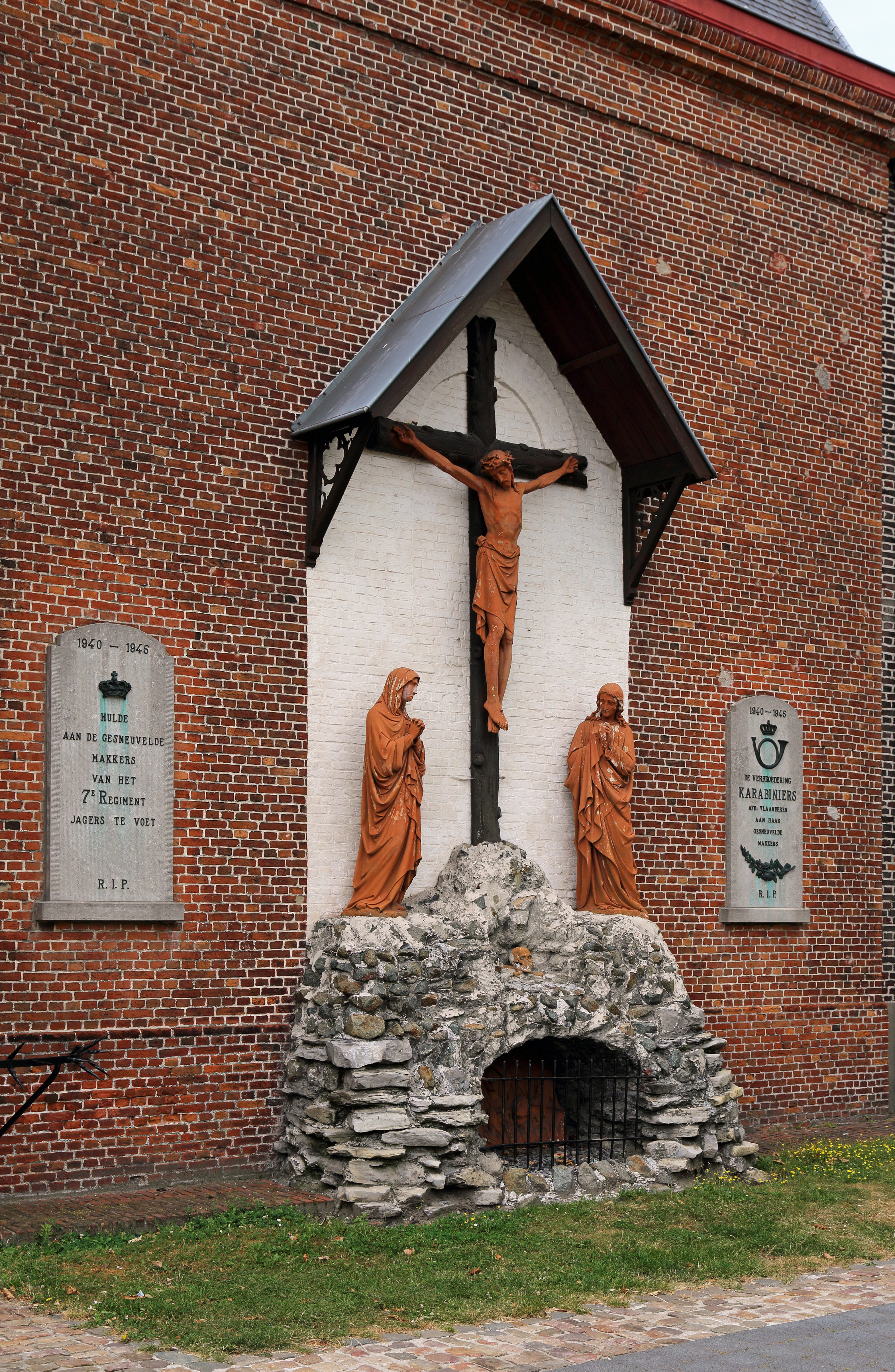 Adegem (municipality of Maldegem, province of East Flanders, Belgium): St Adrian's church, calvary by sculptor Mathias Zens (1890)